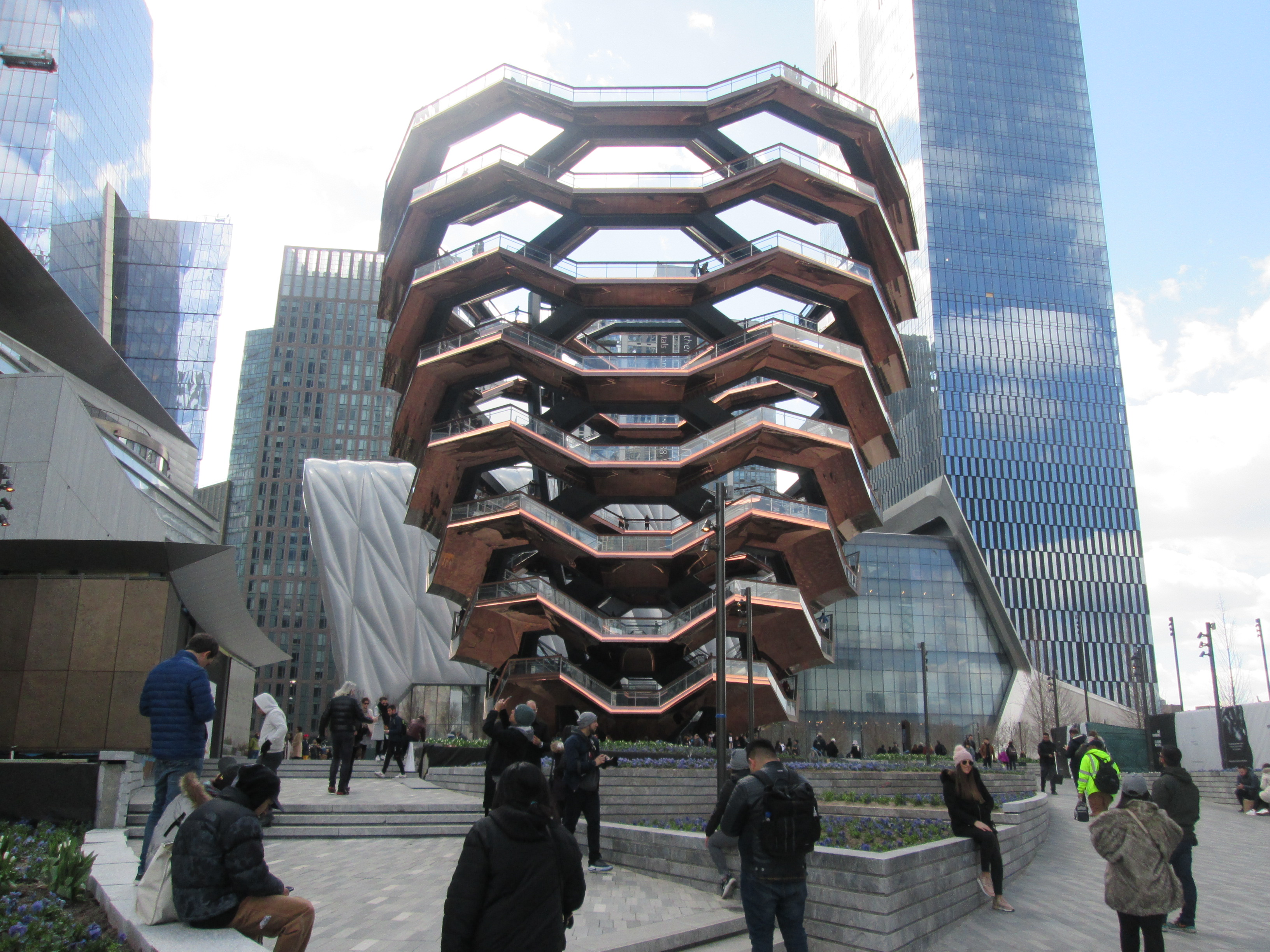 The Hudson Yards development in New York City in March 2019; looking south from public plaza at Vessel. 15 HY is at right, mall at left